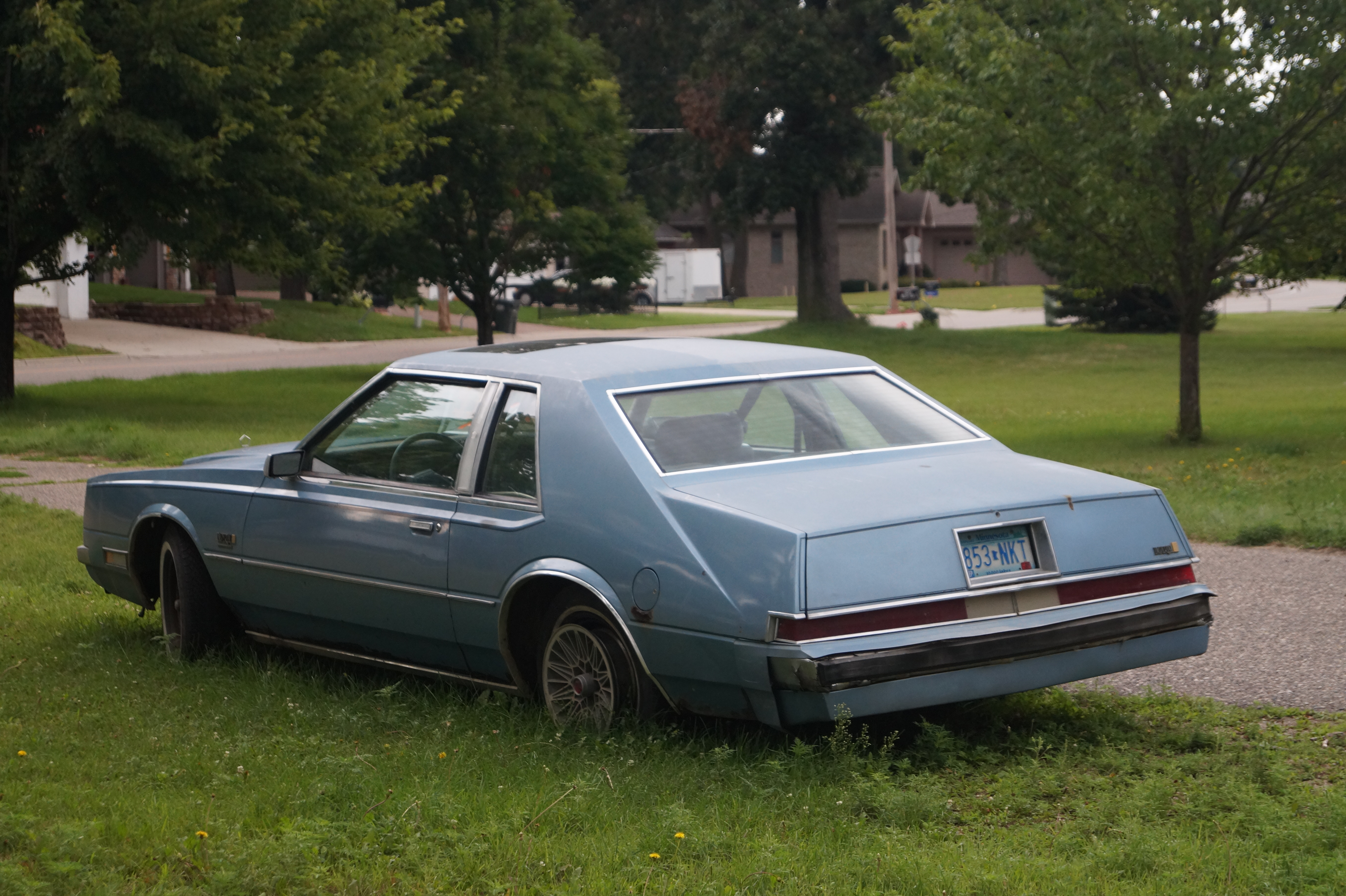 ******** Click here for more car pictures at my Flickr site. Or here for my Car Crazy Tumblr site. Or on Twitter @DVS1mn.